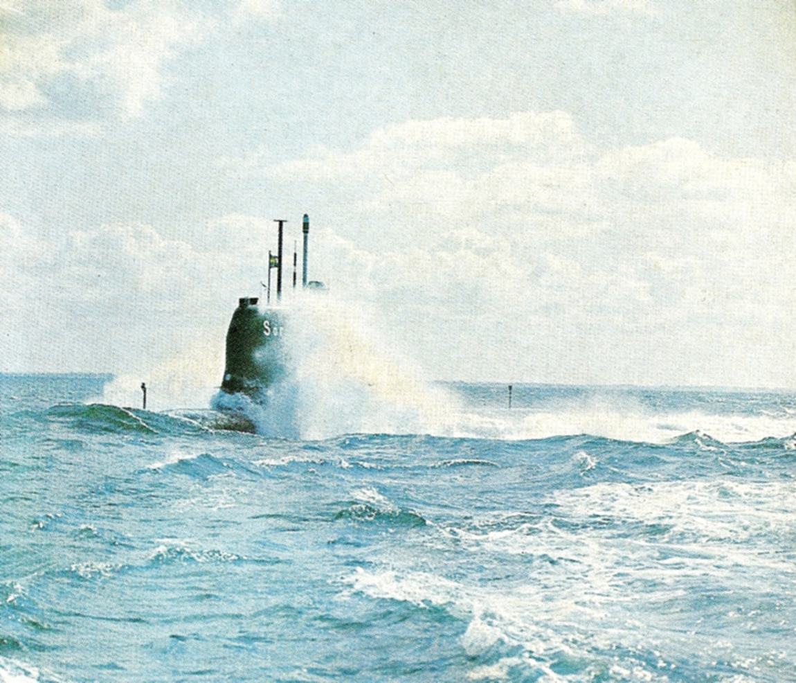 Swedish submarine Sjöormen under way in 1968.